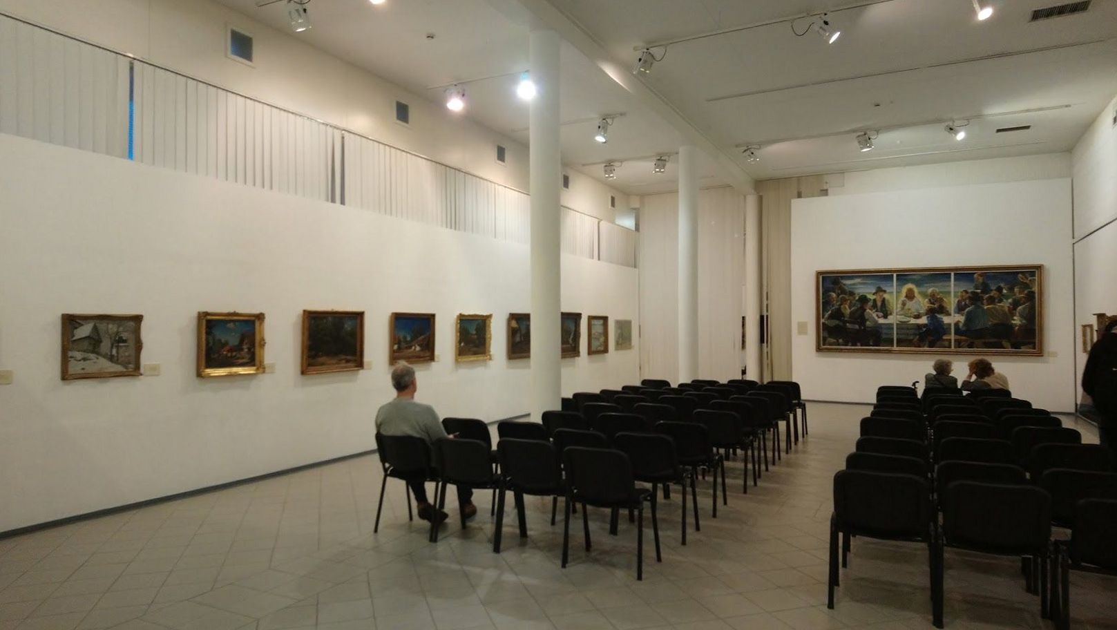 Memorial Exhibition of Dezső Meilinger, Miskolc Gallery, Hungary, 1917–1918